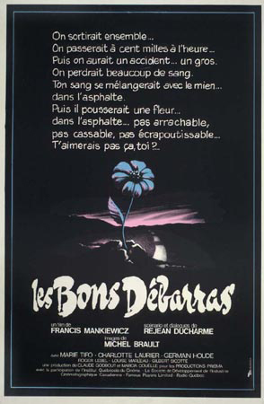 Poster of the movie Good Riddance (Q3231093)